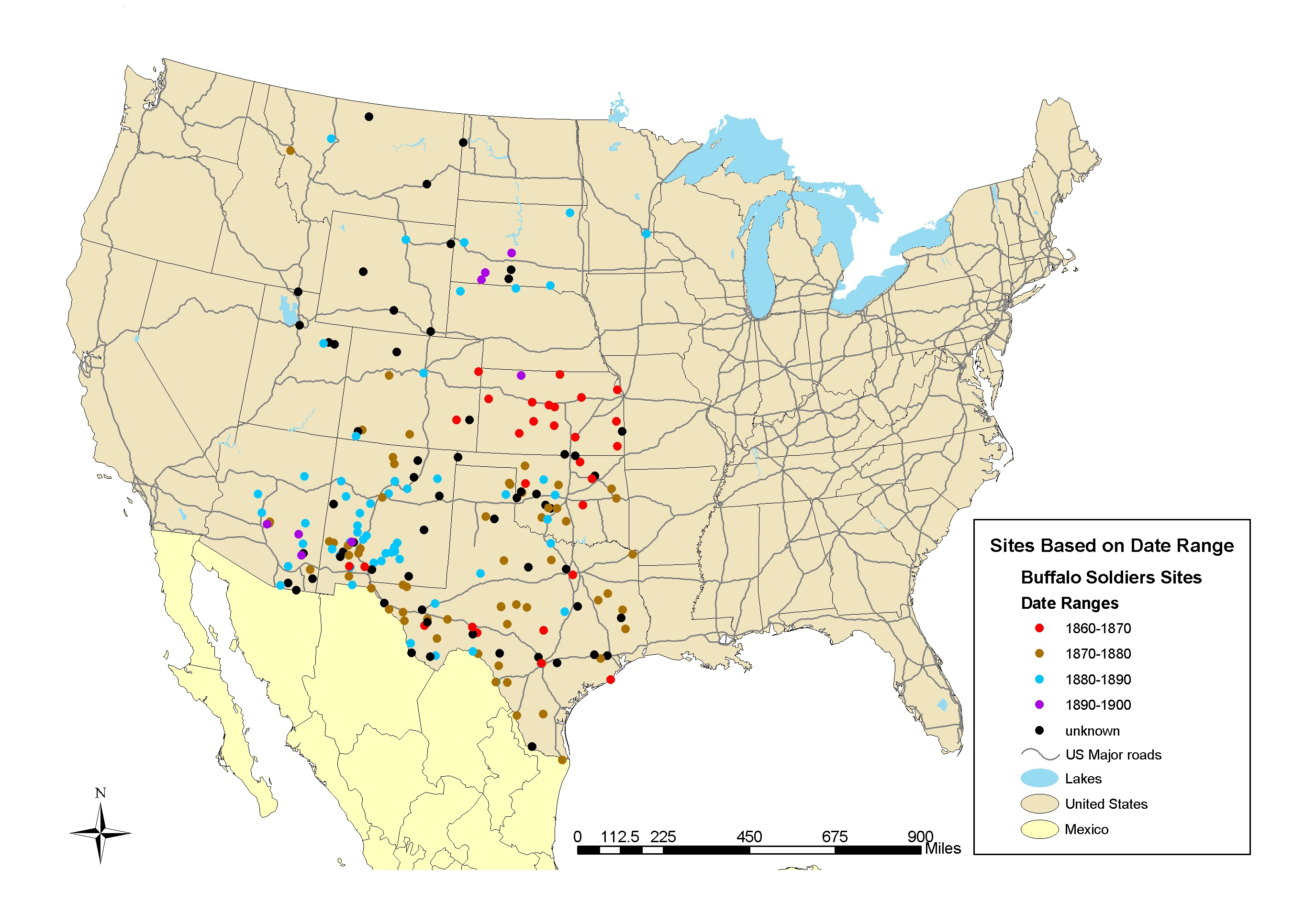 Map of significant historic sites associated with the Buffalo Soldier Regiments 1860-1900